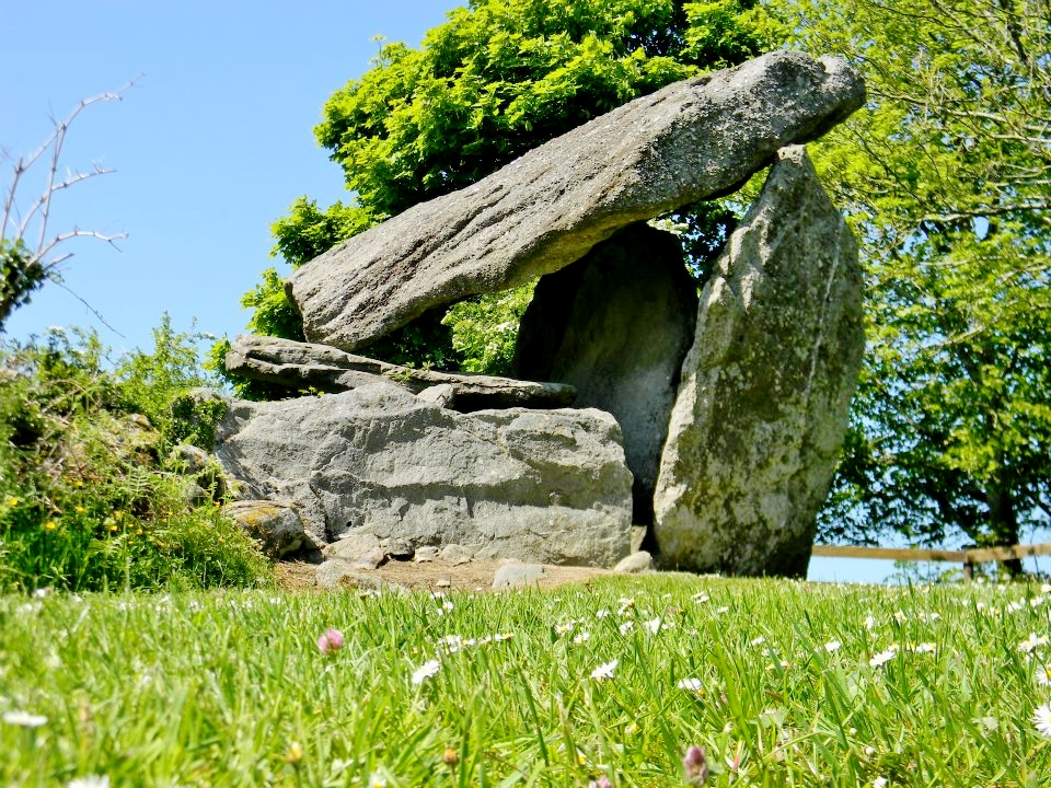 Kilmogue Portal Tomb known locally as "Leac an Scail" or stone of the warrior.It is one of the largest dolmens in Ireland located near Harristown Co.Kilkenny